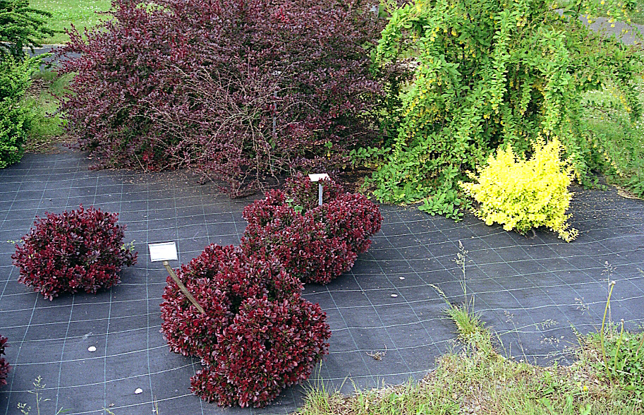 Berberis CVS: Berberis x ottawensis ‘Superba’, Berberis thunbergii ‘Atropurpurea Nana’, Berberis thunbergii ‘Aurea’ (Alnarp, Sweden)